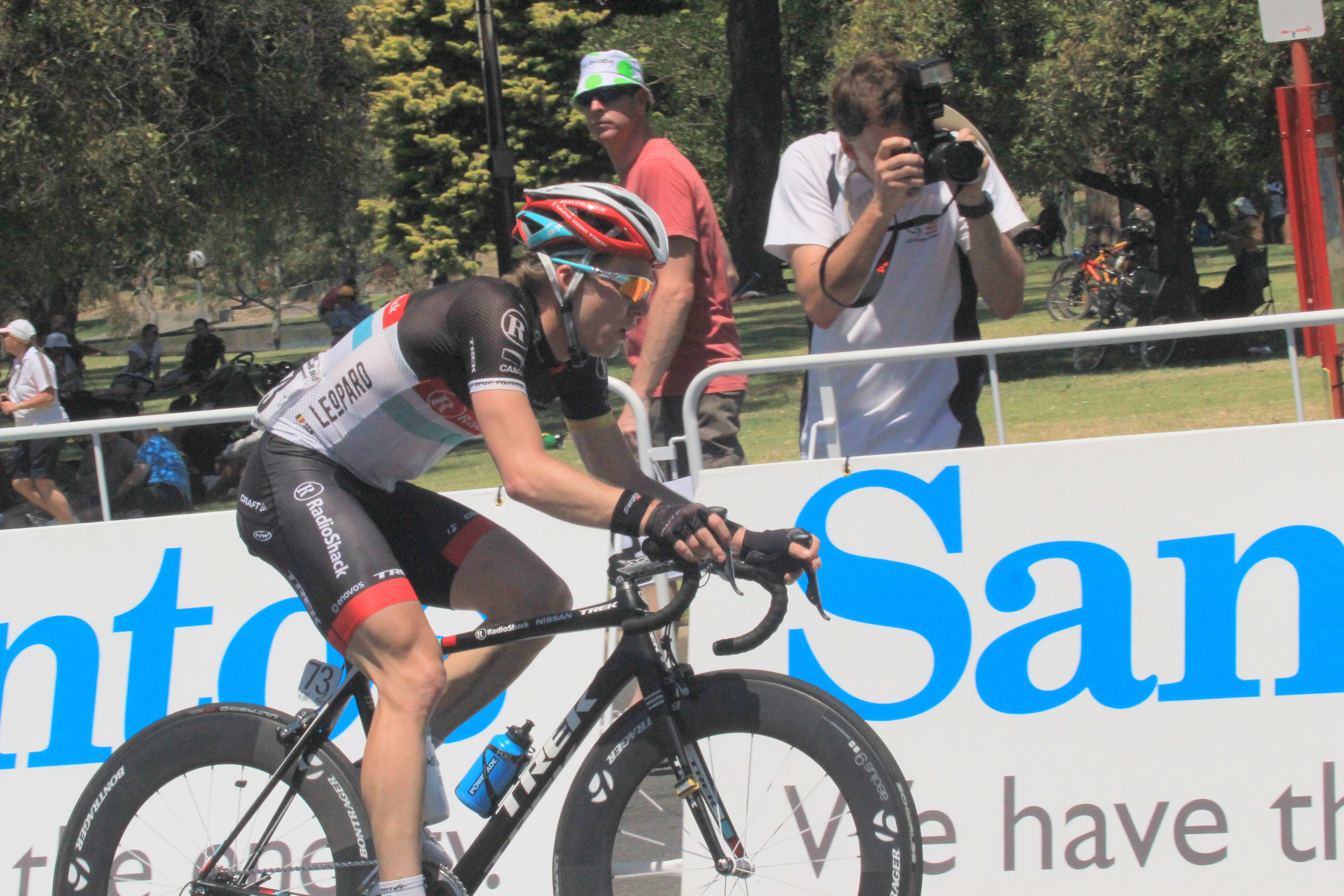 Jan Bakelants, during the final stage of the 2012 Tour Down Under